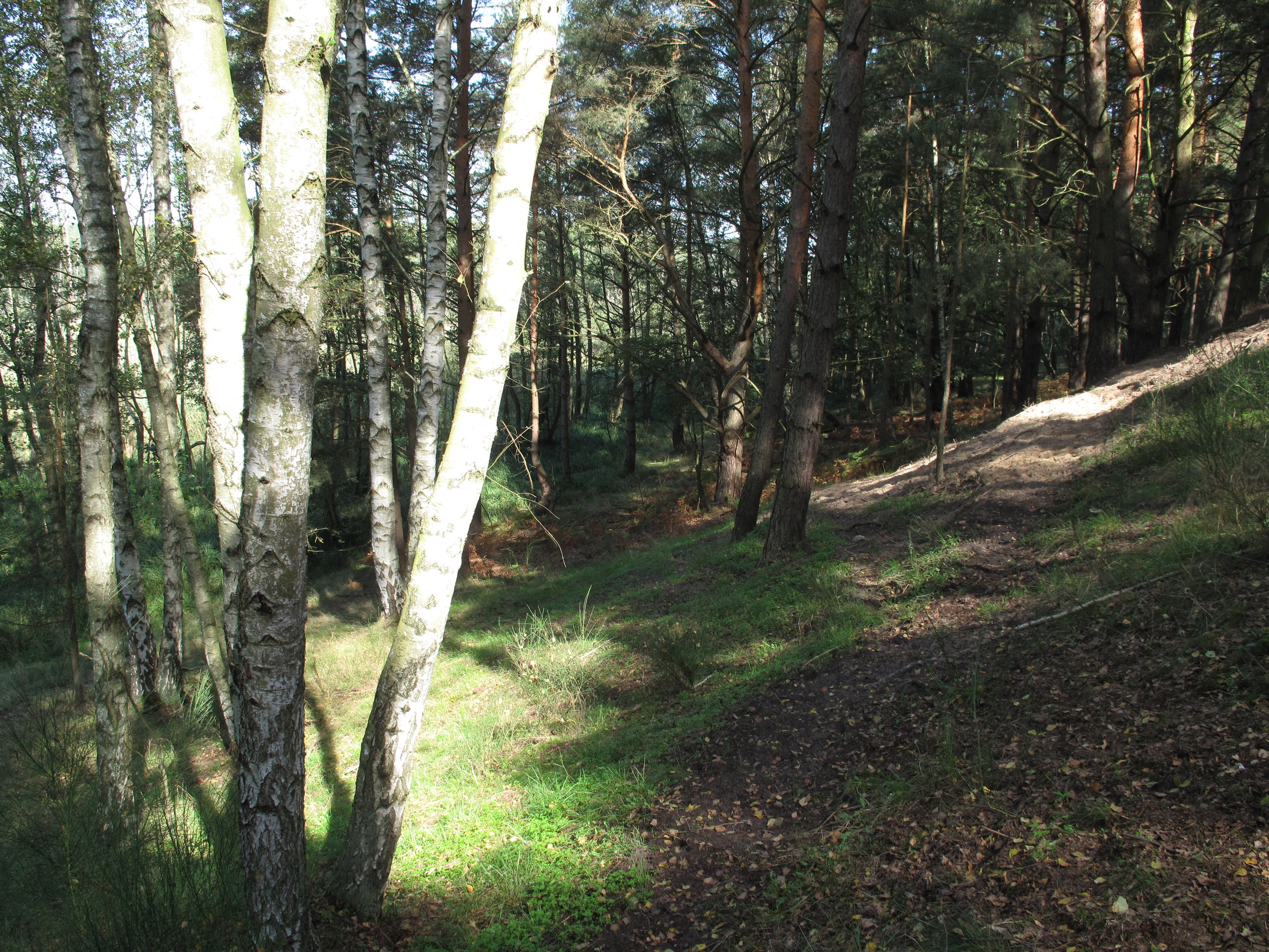 Eastern stope of the Blabbergrabenrinne/Drobschseerinne in the village Görsdorf, a part (german: Ortsteil) of the municipality Tauche in the District Oder-Spree, Brandenburg, Germany. A part of the Drobschsee and and its southern silt area, which is now flown by the Blabbergraben, is designated in the Naturschutzgebiet (protected area)/Natura 2000-area Naturschutzgebiet Schwenower Forst as Naturentwicklungsgebiet (german for: nature development area), a specially protected area, which is deprived humans influence. It is situated in the Dahme-Heideseen Nature Park, too.